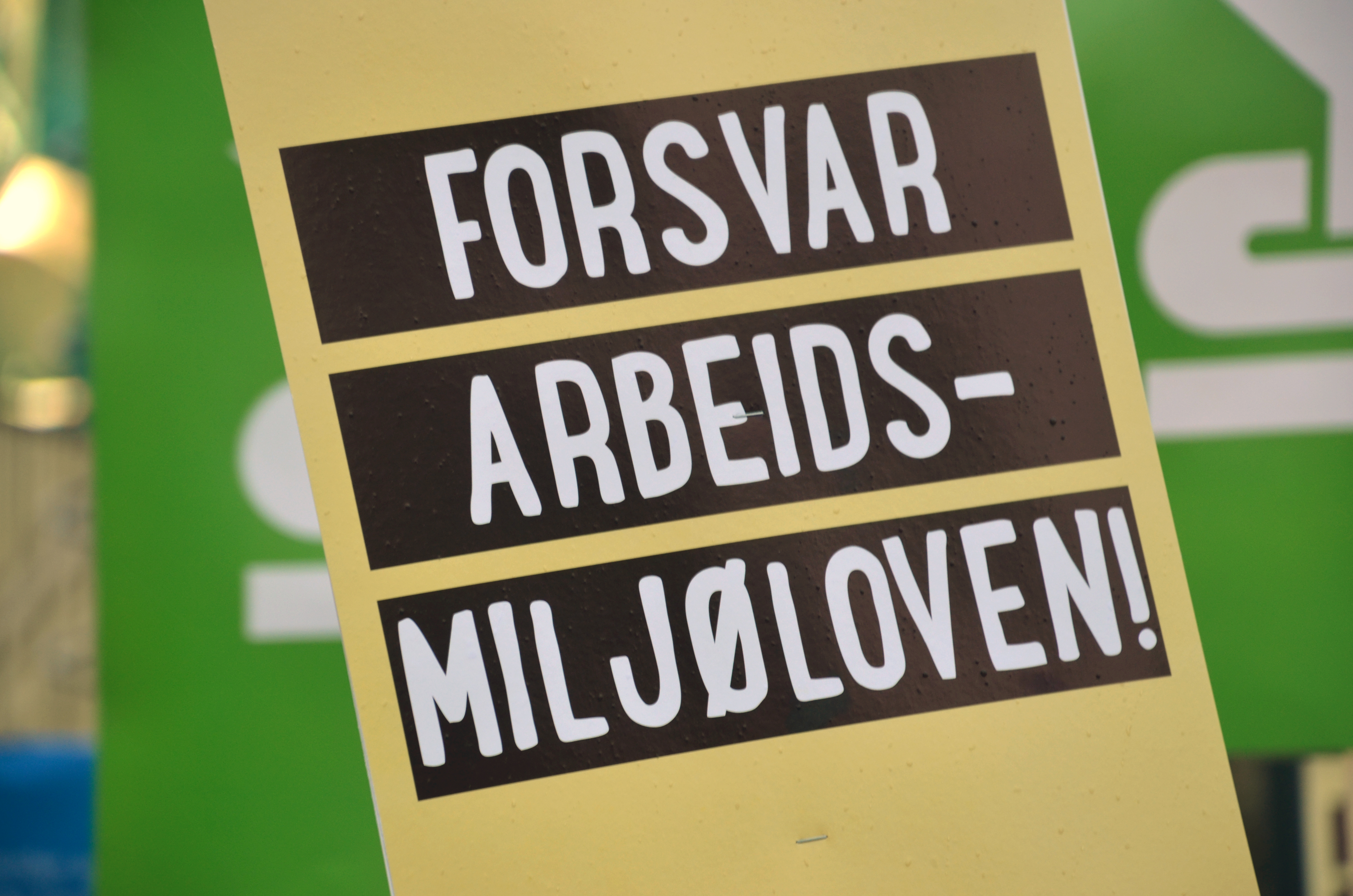 A poster from a rally against legislative changes in the Norwegian working environment law in 2015.